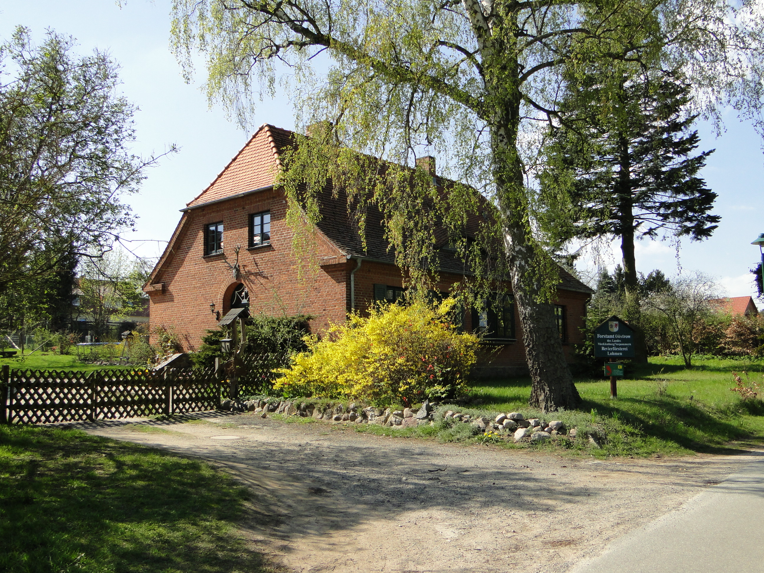 Forester's lodge in Lohmen, district Güstrow, Mecklenburg-Vorpommern, Germany